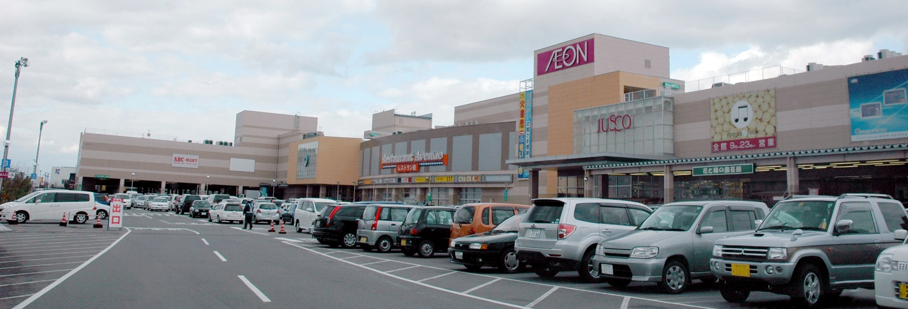 AEON Shibata Shopping Center, Shibata-shi Niigata pref,. Japan.